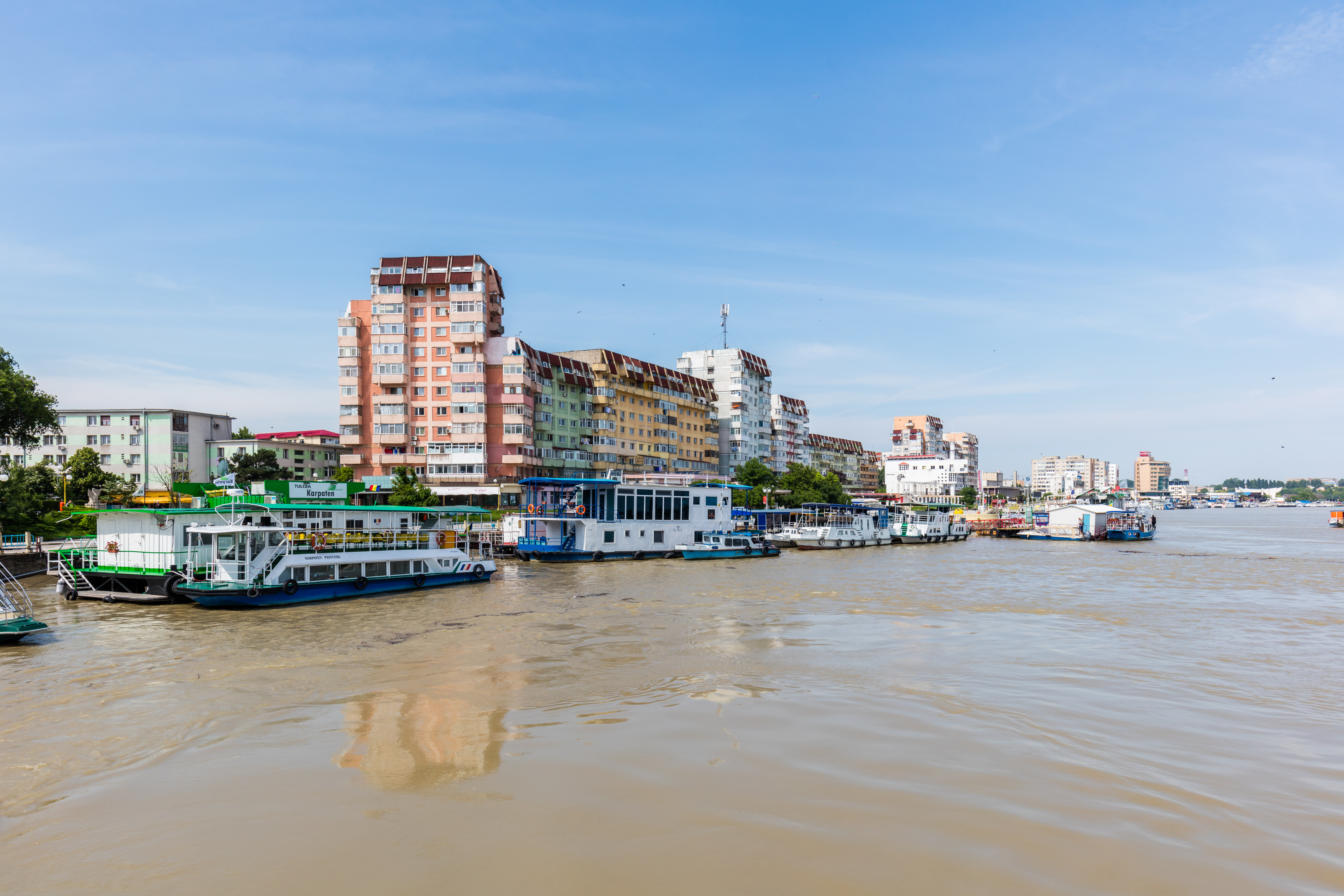 Tulcea port, Romania